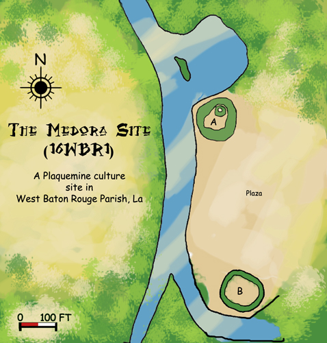 A map of the Medora Site, a Plaquemine culture mound site in West Baton Rouge Parish, Louisiana.